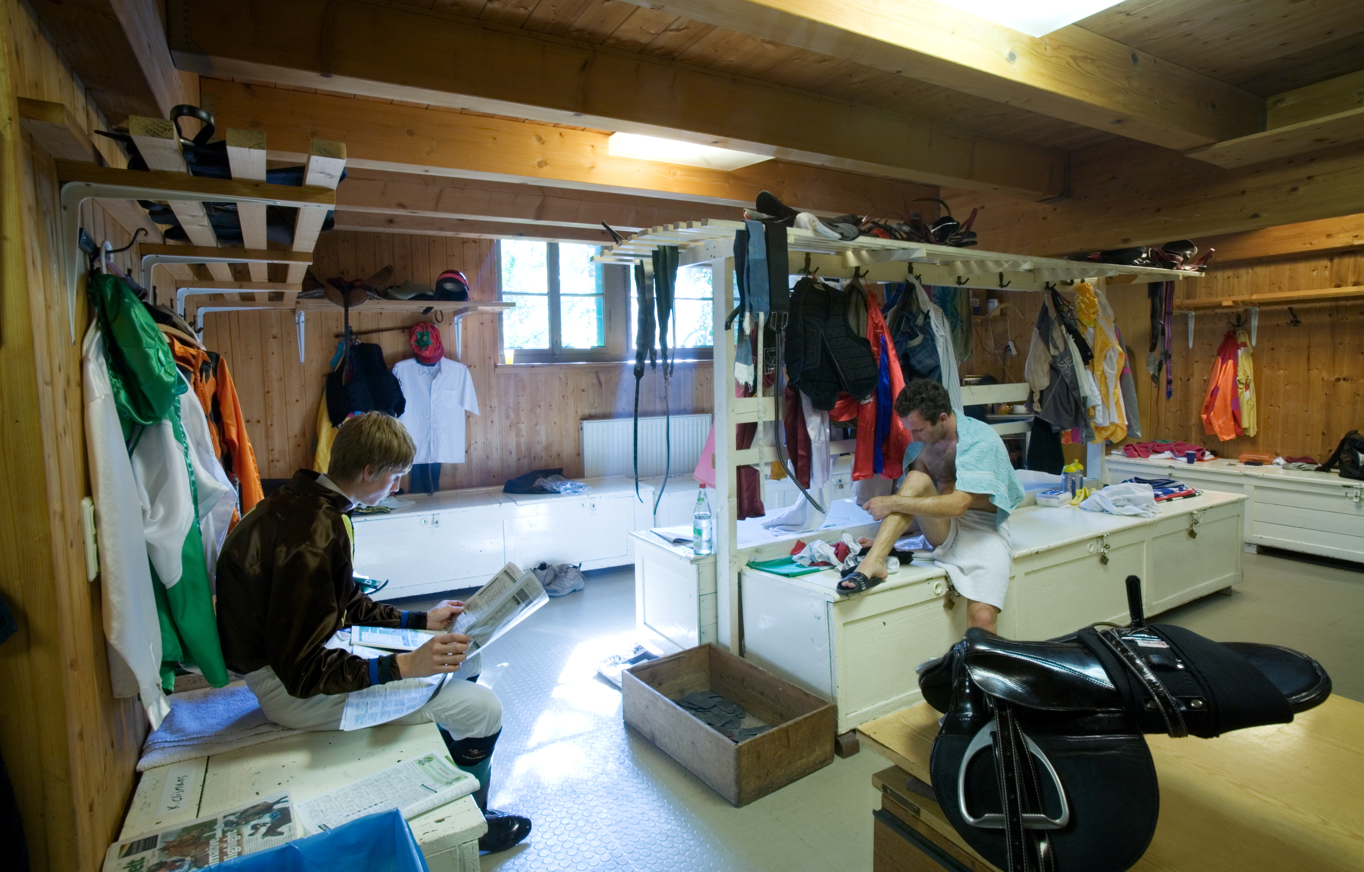 Jockey dressing room in the Galoppriem horse racing course, Munich